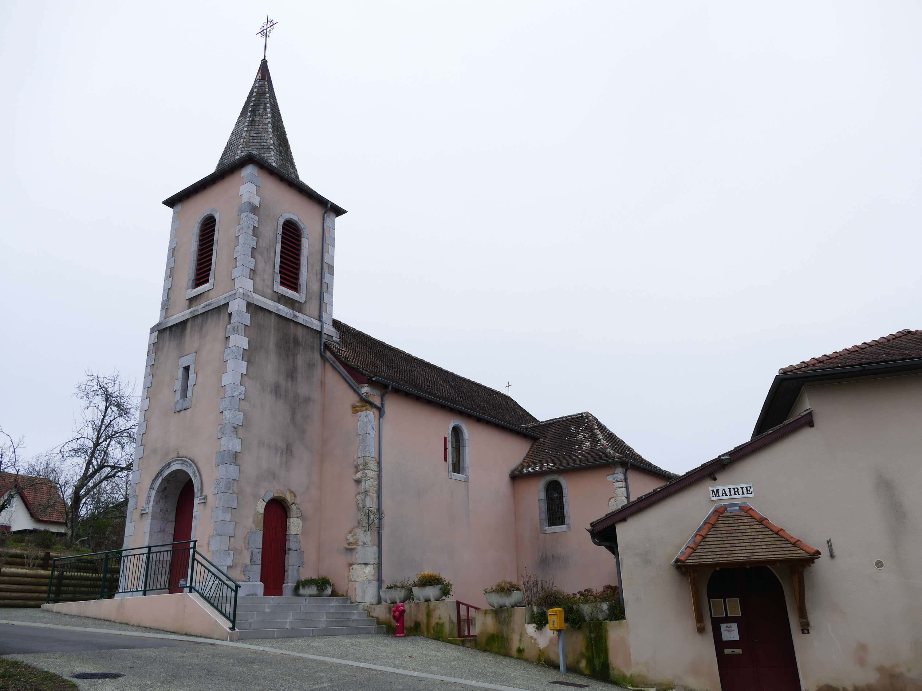 Church of the Assumption in Balansun (Béarn, Nouvelle-Aquitaine, France).